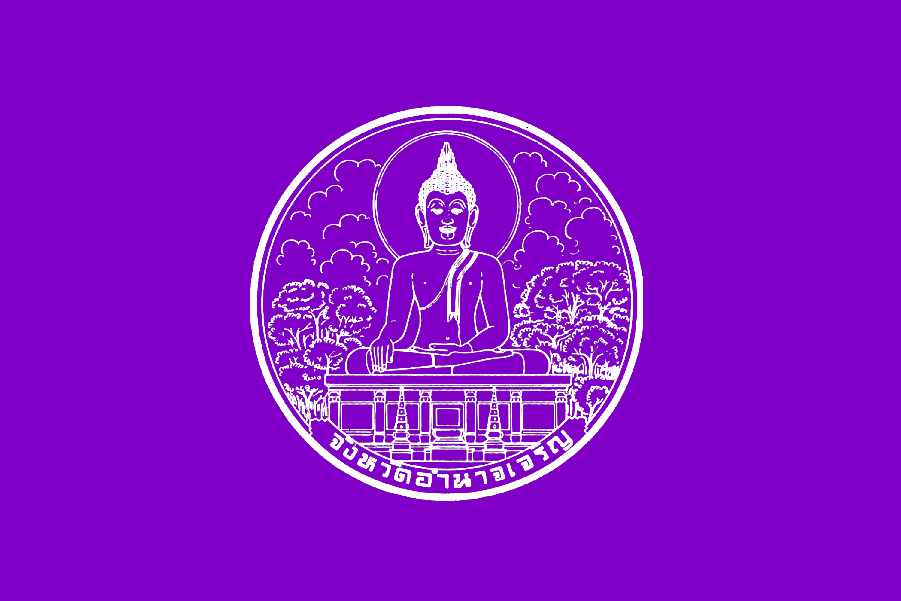 Flag of Amnat Charoen Province